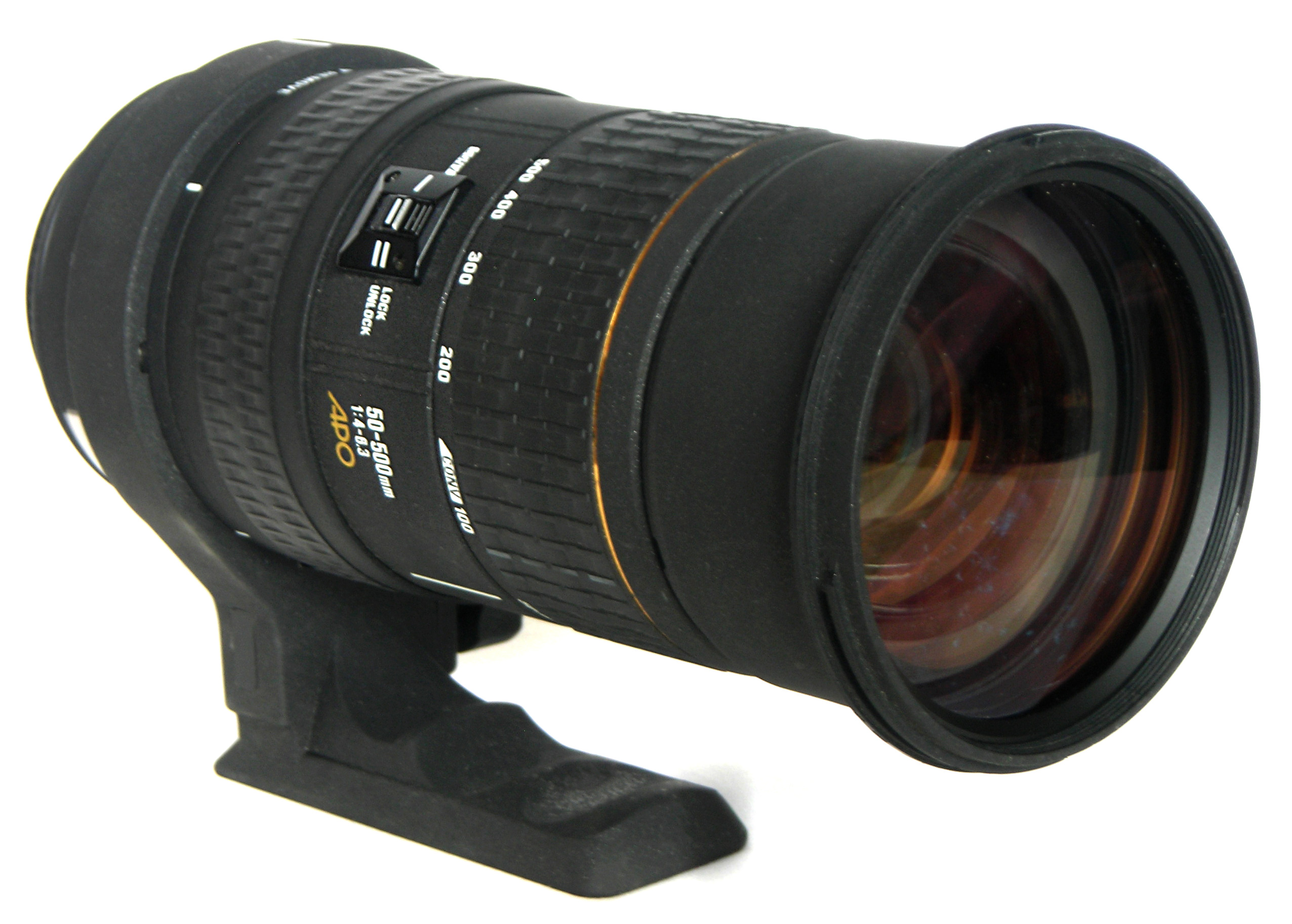 Sigma 50-500mm f/4-6.3 EX DG HSM APO lens (Pentax mount) + grip